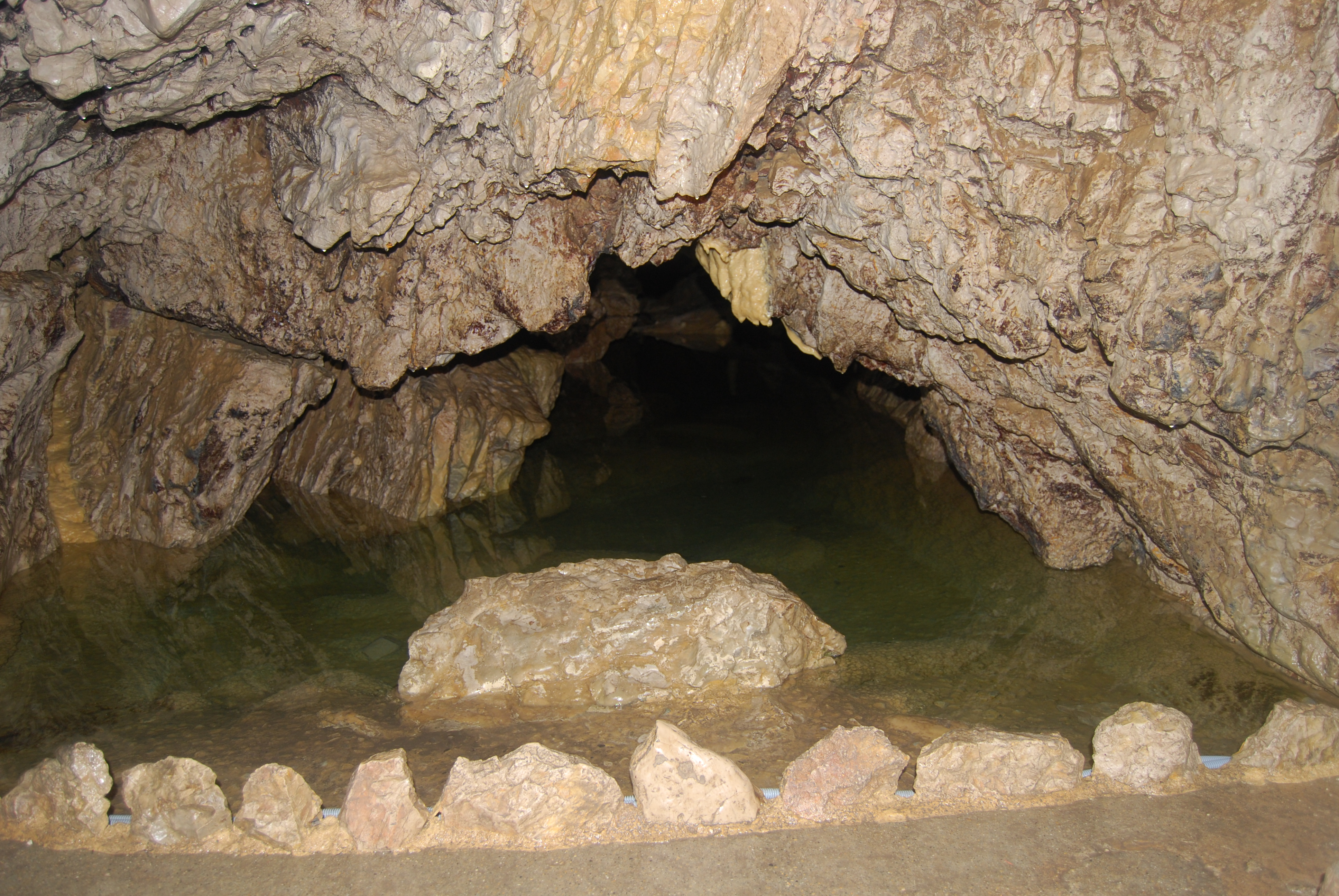 Segment of the Cave "Grottes de Vallorbe", Jura Mountains, Canton of Vaud, Switzerland. River Orbe disappears underground in these Grottes for a stretch of 4 km, to reappear in Vallorbe as the karst spring "Source de l’Orbe".